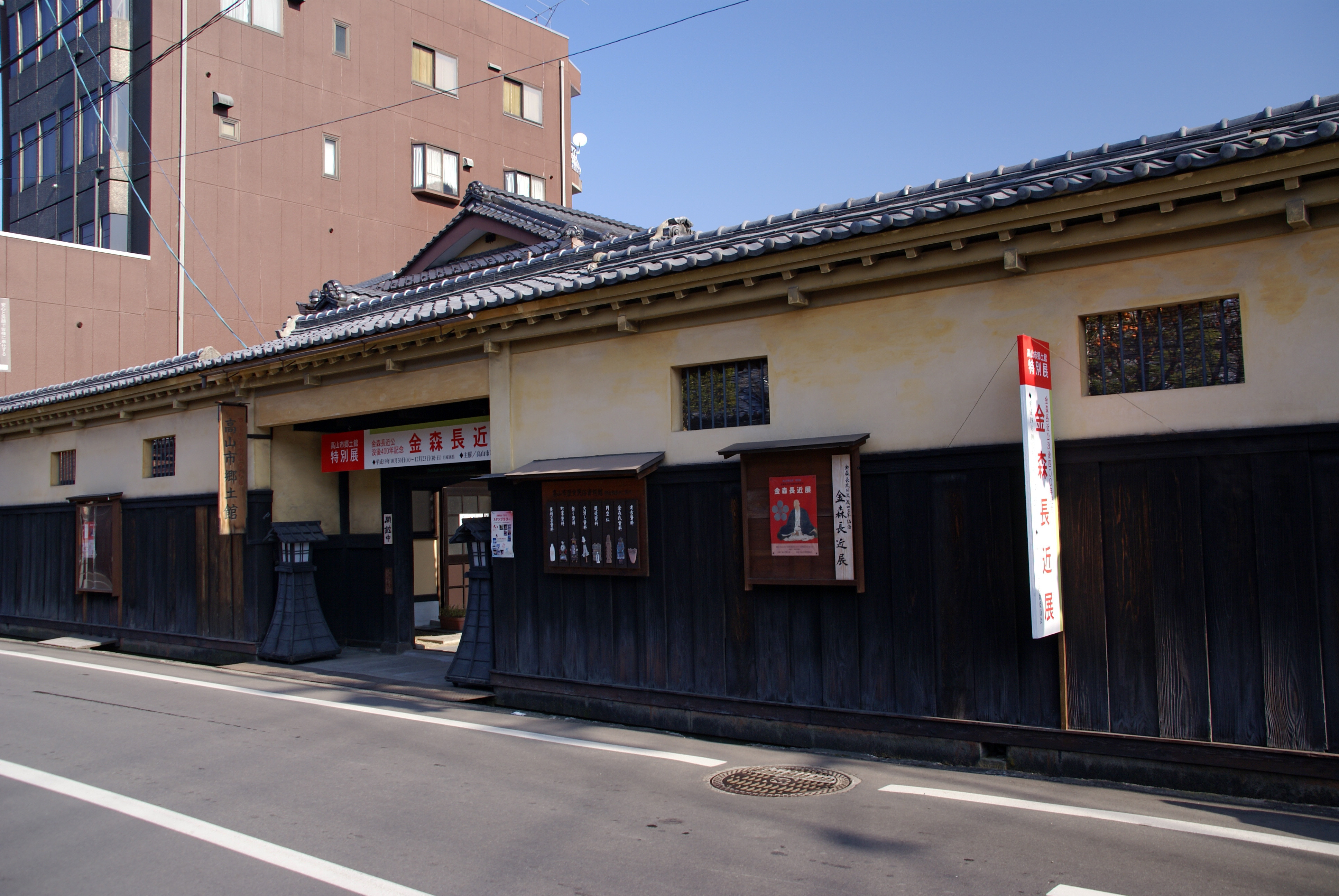 Takayama-shi kyodokan in Takayama, Gifu prefecture, Japan